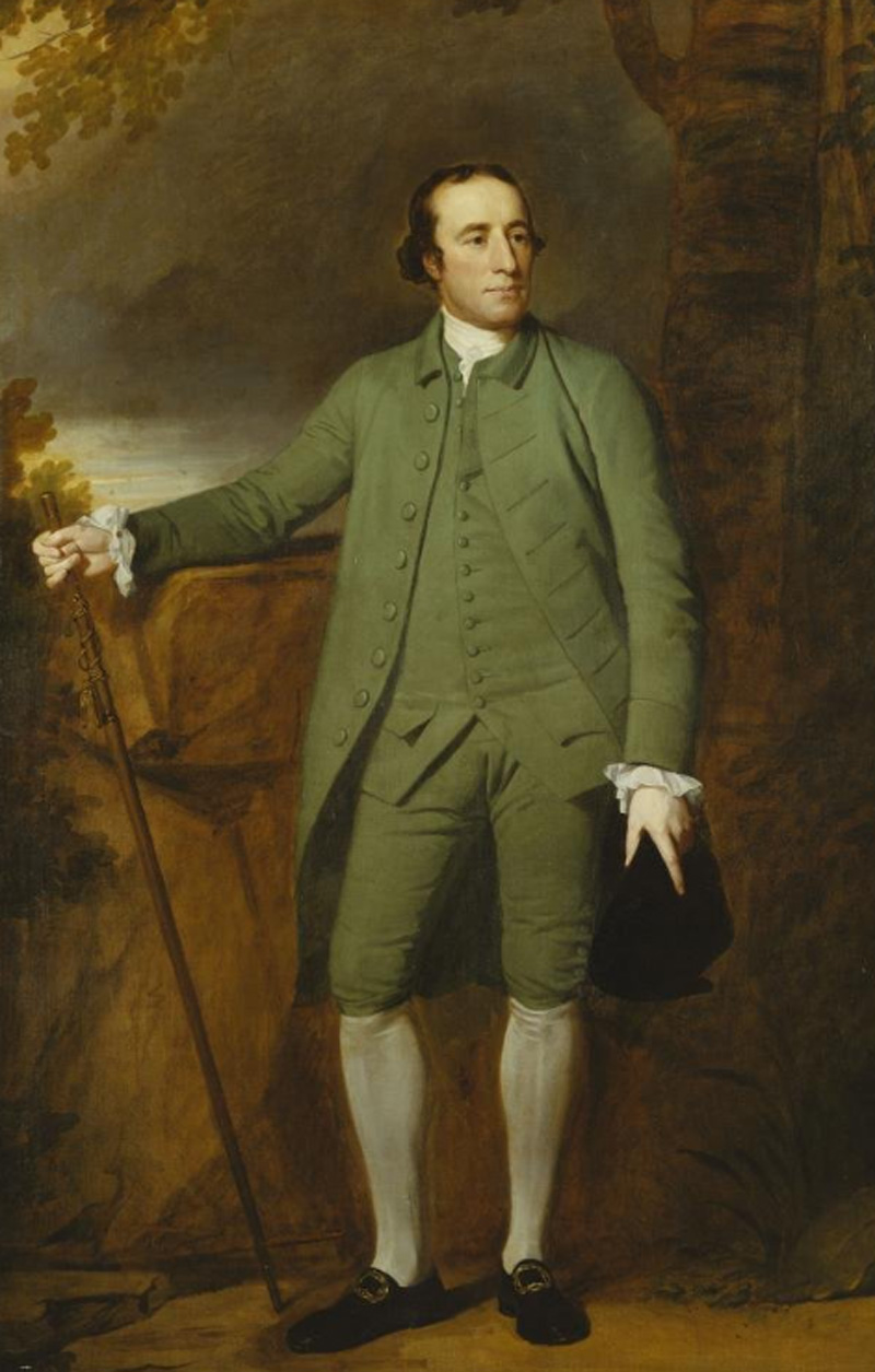 George Morewood, owner of Alfreton Hall